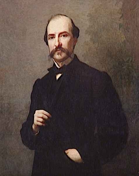 Portrait of French writer and politician Léon Laurent-Pichat (1823-1886)